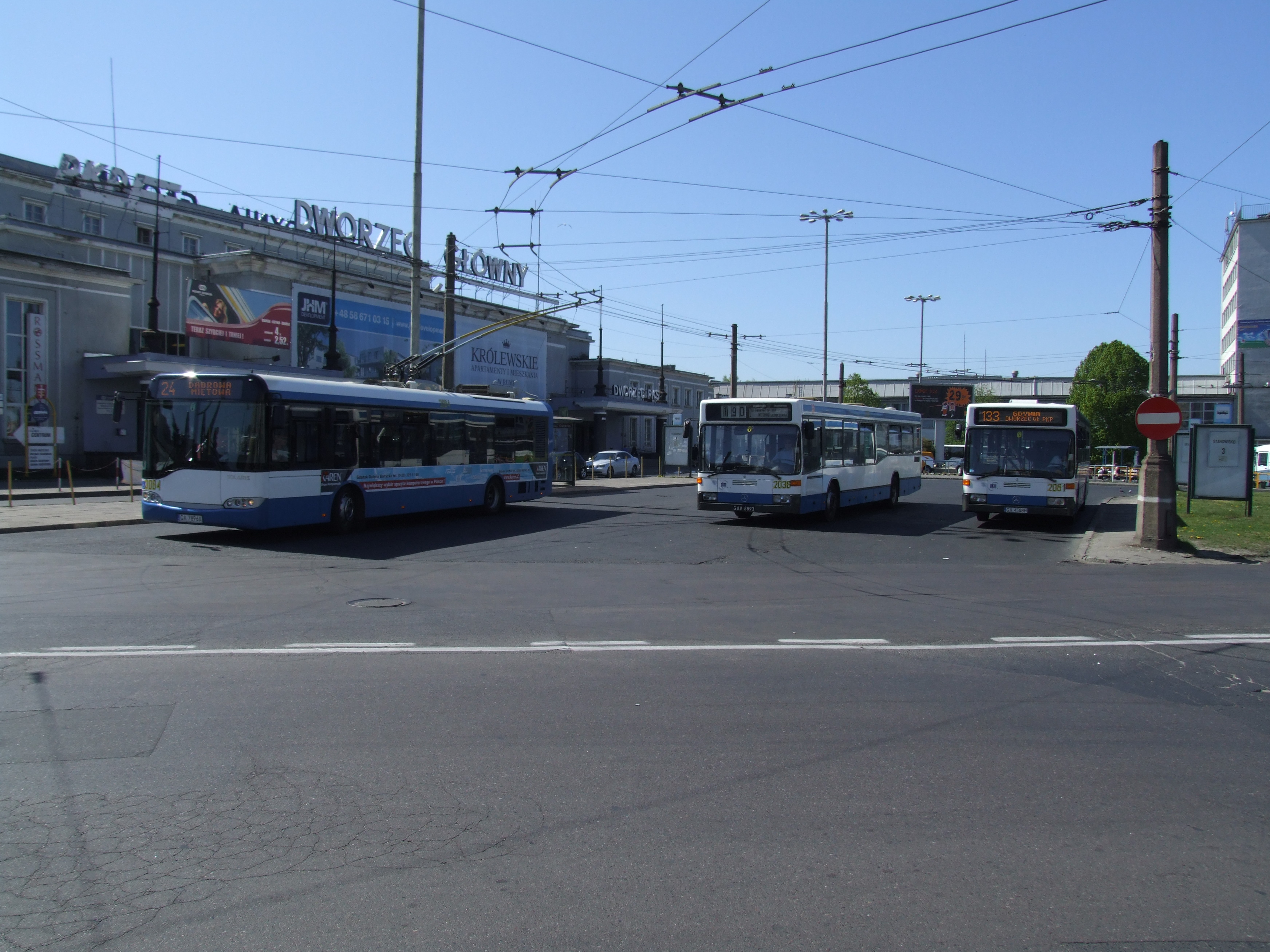 From left to right: Solaris Trollino 12AC trolleybus (#3084, built 2006, PKT Gdynia operator), and Jelcz M122MB bus with Mercedes-Benz O405N2 chassis (#2036, reg. GAV 8893, built 1996, PKM Gdynia operator), Mercedes-Benz O405N bus (#2081, reg. GKA PL56, built 1991, PKM Gdynia).